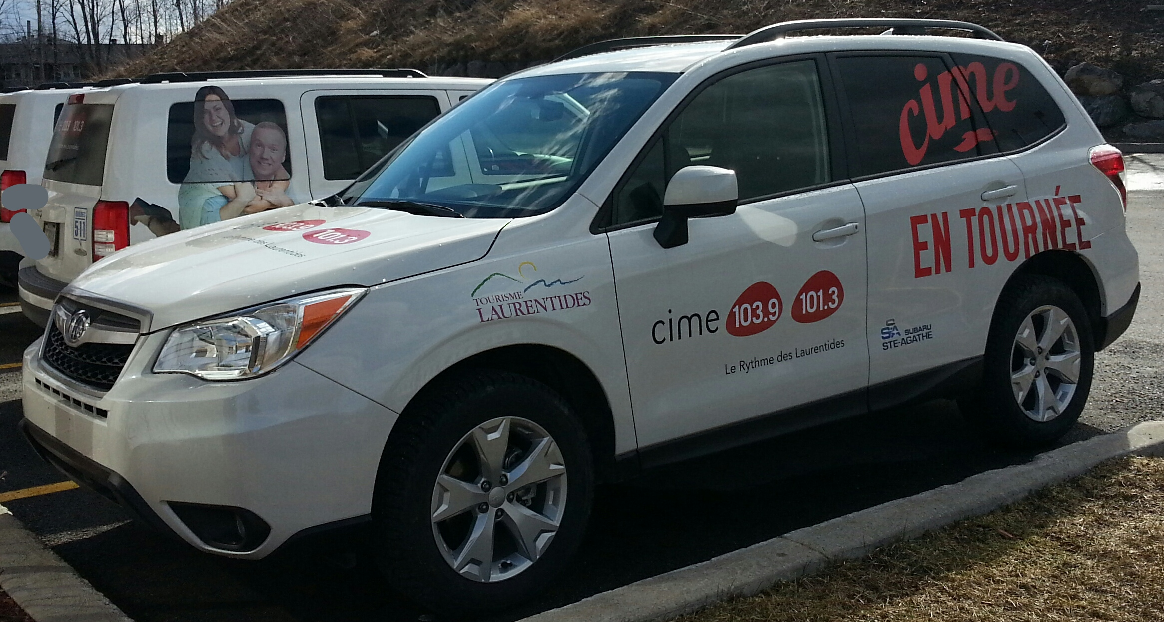 2014-2016 Subaru Forester photographed in St. Jérôme, Quebec, Canada with a logo of CIME-FM.